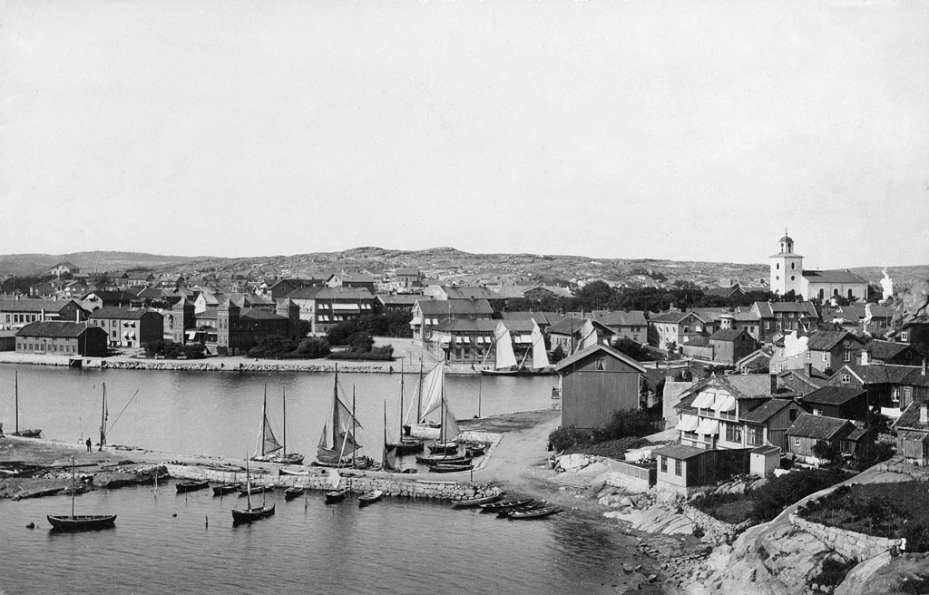 View over Strömstad and the harbour. The church to the right in the picture. Format: Albumen print